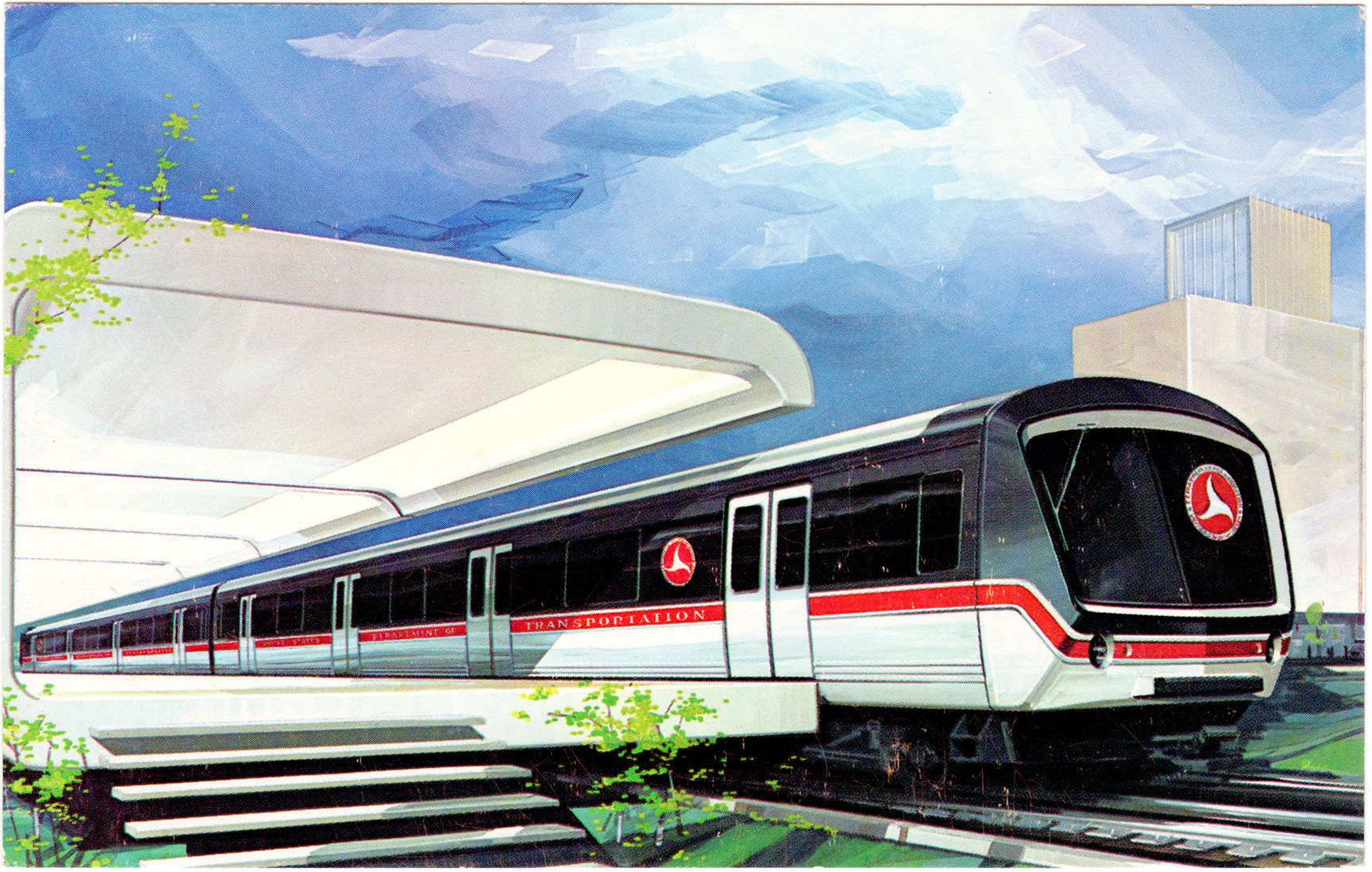 Mid 1970s postcard of the State of the Art Car. The postcard was produced by Boeing Vertol (systems manager for the project)